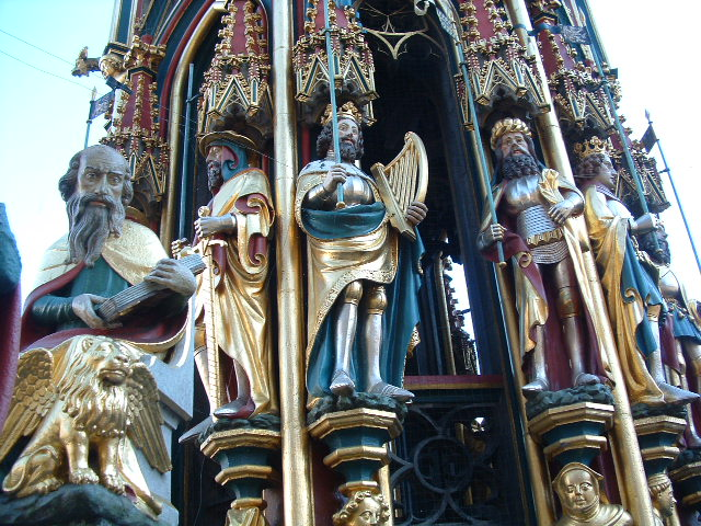 Statues featuring the nine worthies on the Schöne Brunnen (beautiful fountain) in Nuremberg (1385-1396). David is recognizable to his harp.